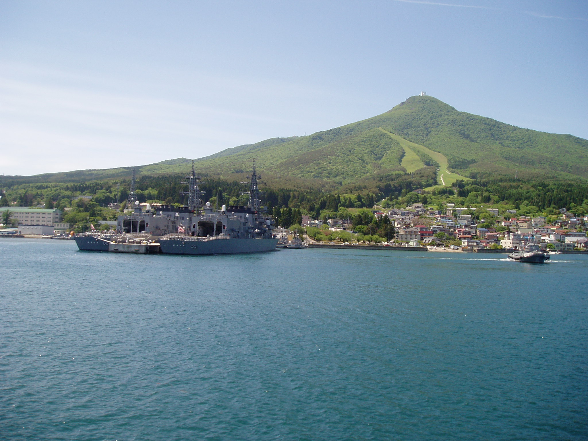 JS Suzunami (DD-114) and JS Yudachi (DD-108). Mount Kamafuse in the backgrond.